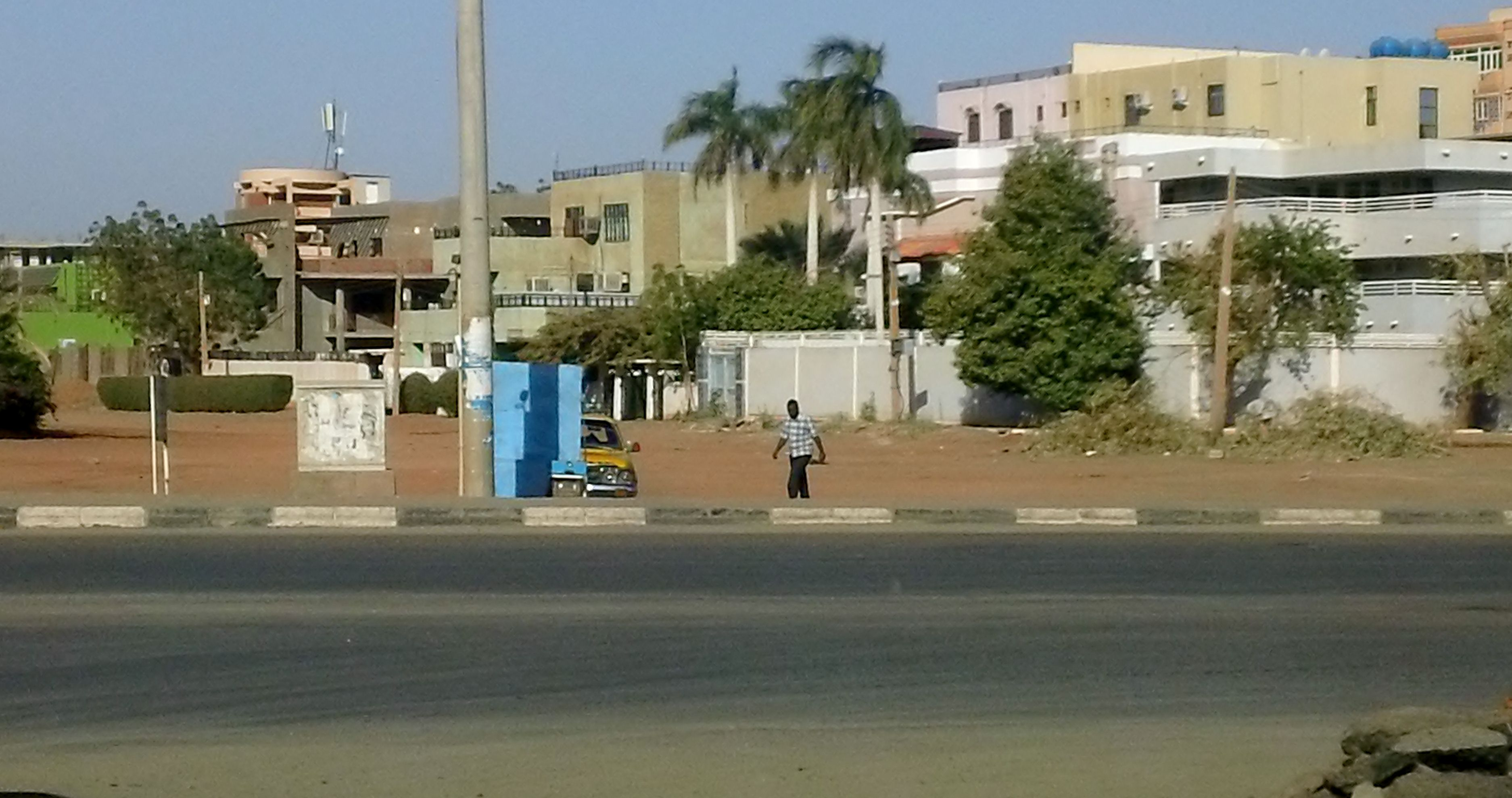 Alingas street – Khartoum Bahri – Sudan